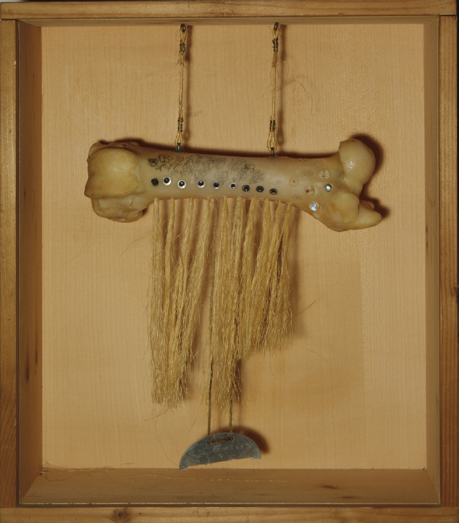 Dieter Reick, I had a comrade (1972), picture case 42x35 cm (bone, manila, identification disk). The title refers to the german soldiers song "Ich hatt' einen Kameraden".